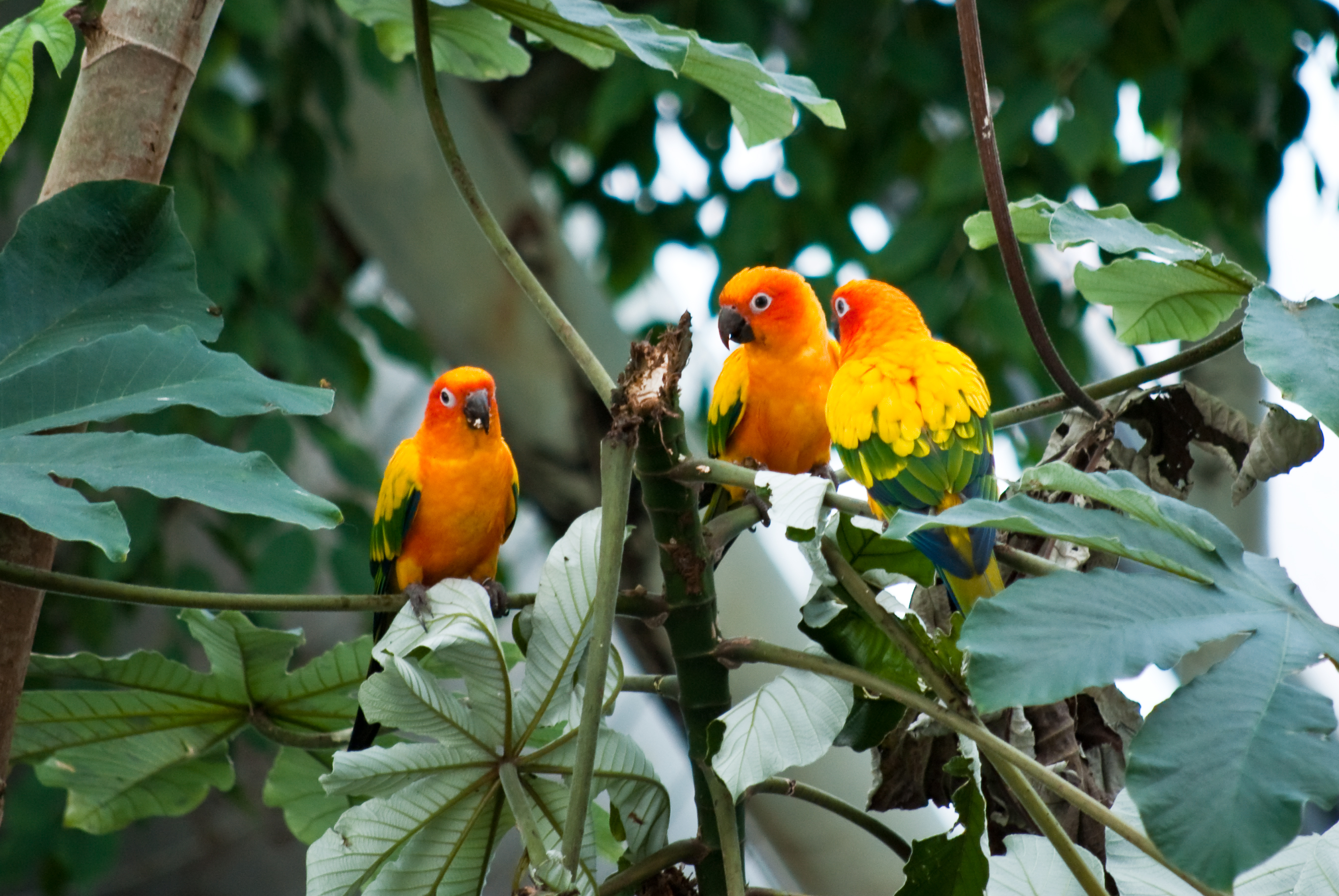 A Aratinga solstitialis at Baltimore Aquarium, USA. Sun Parakeet (also known as the Sun Conure) From the Amazon Exhibit. The two on the right started fighting right after I took this picture, unfortunately all the pictures of them fighting came out blurry, due to the rapid movement and the lack of good light.